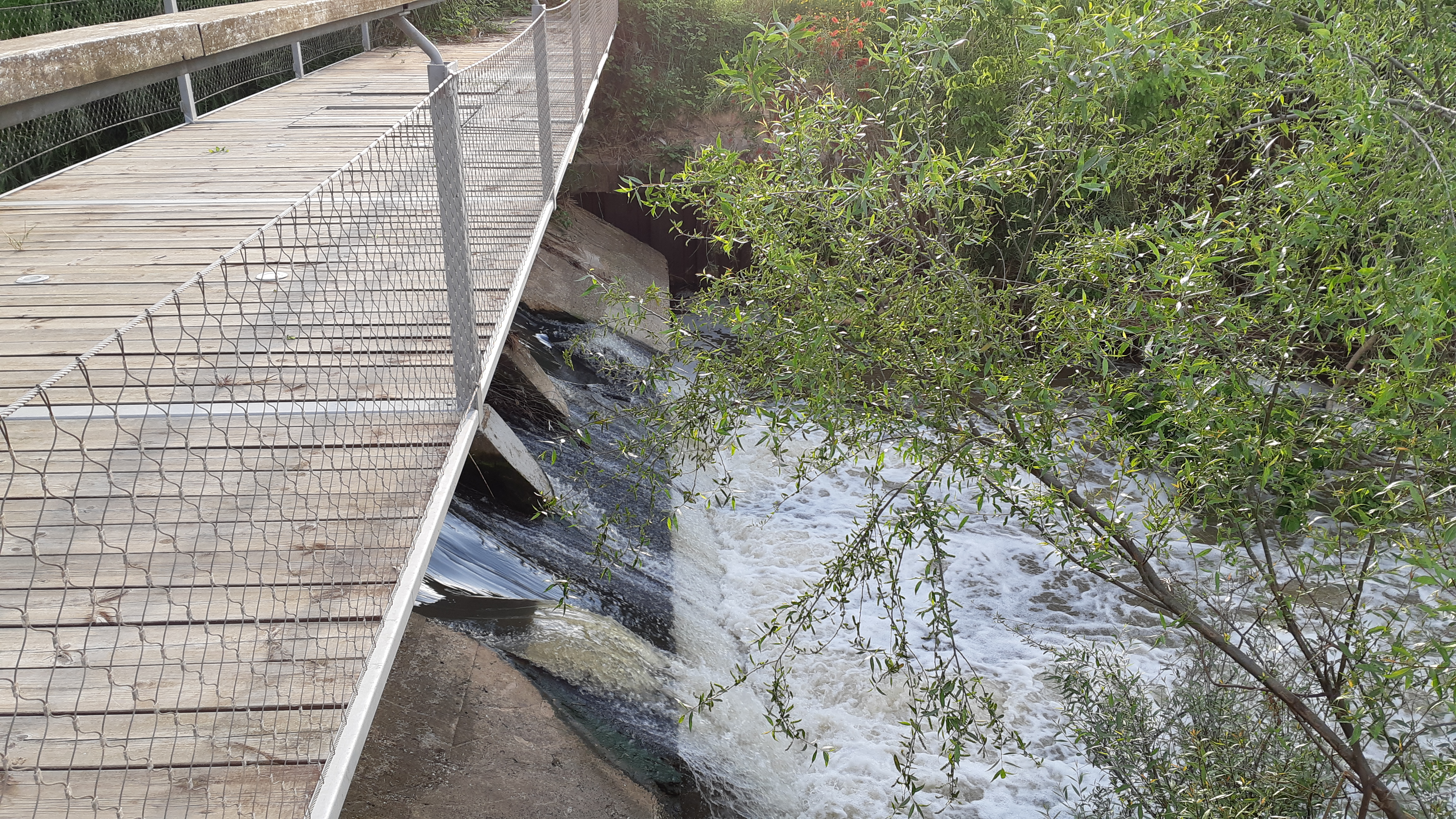 10 Mills Dam archeology site in Park haYarkon, Tel Aviv